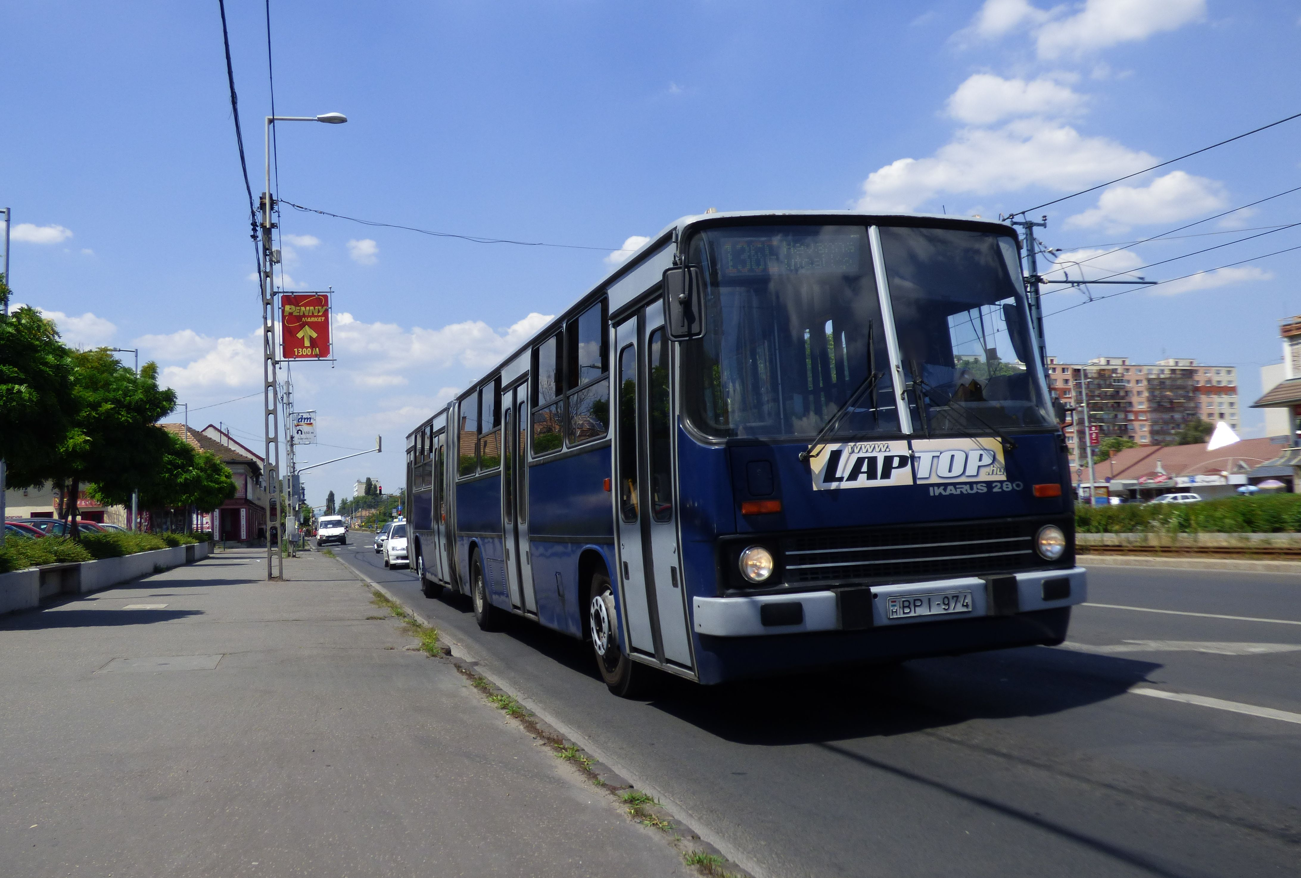 Ikarus 260 bus, Budapest, bus line 136E (reg. BPI-974)